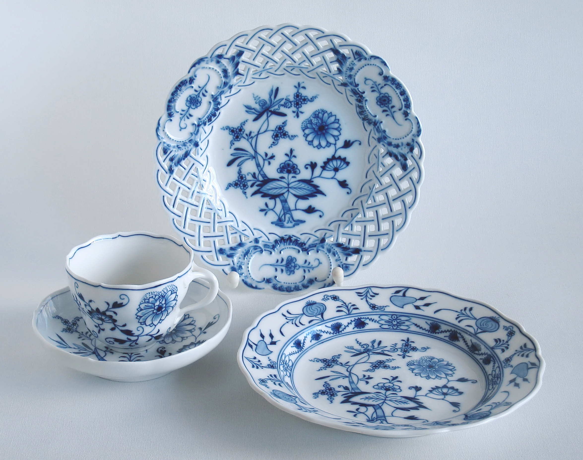 Meissen porcelain tableware, blue onion pattern